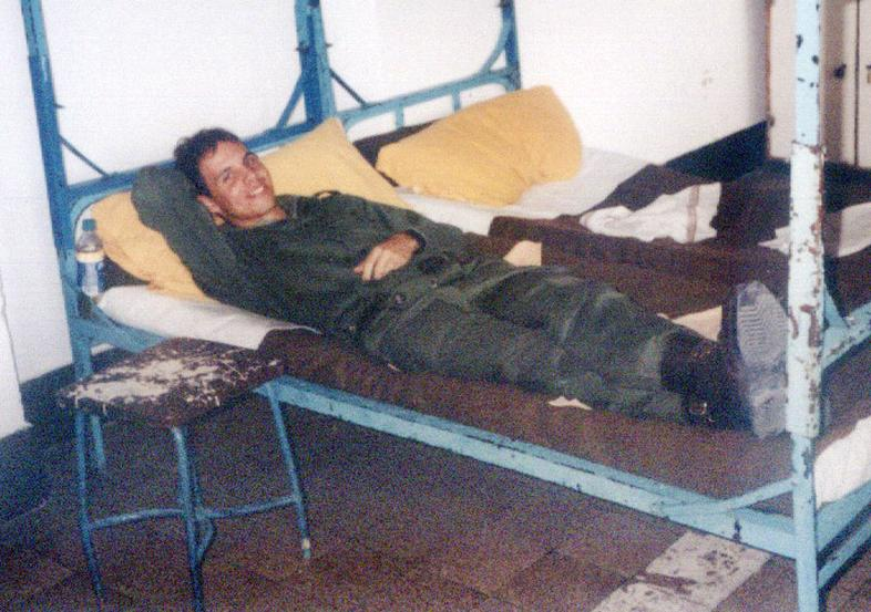 Enlisted man in barrack's dormitory (genre)